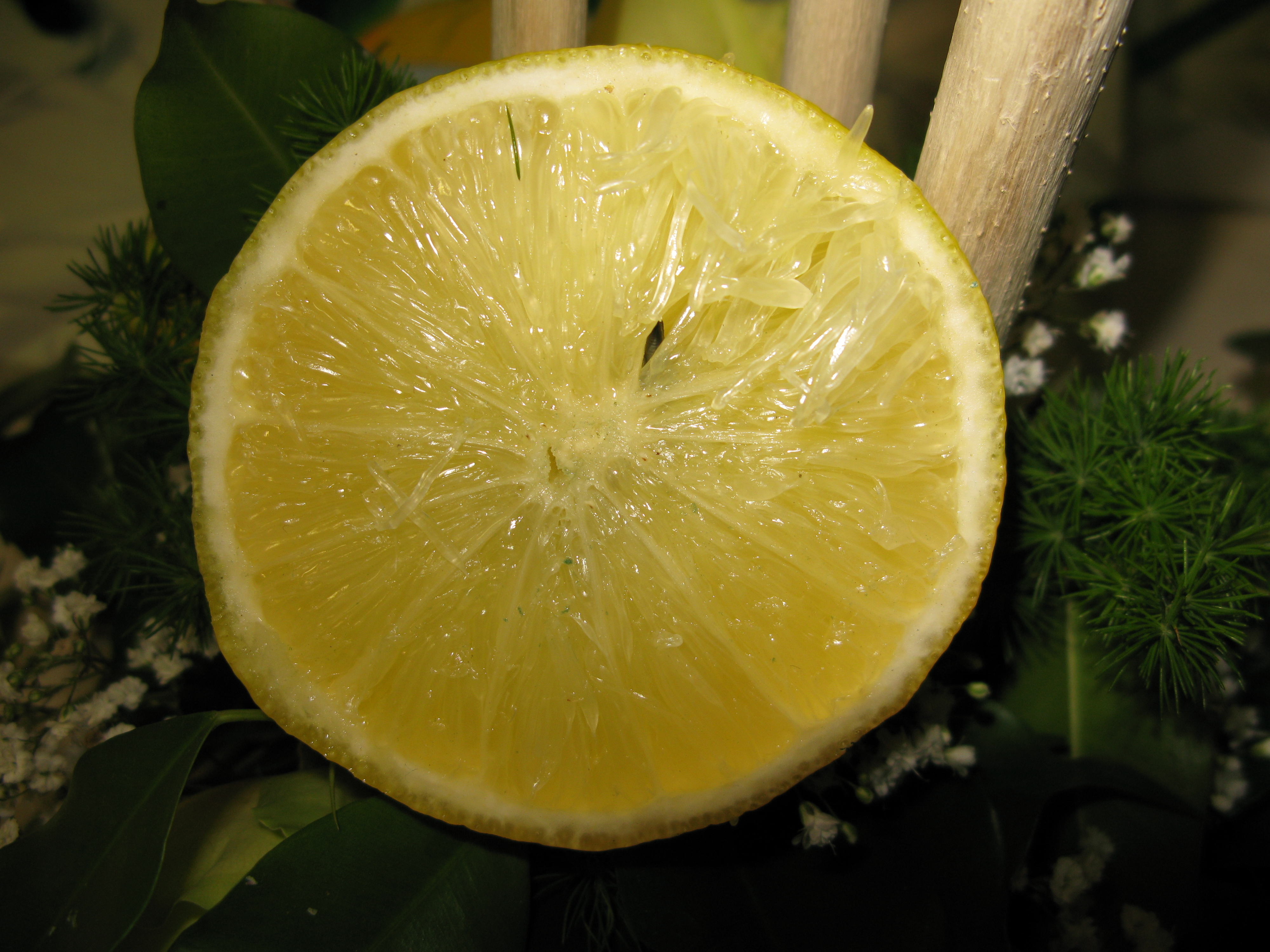 Cross section of Bergamot orange